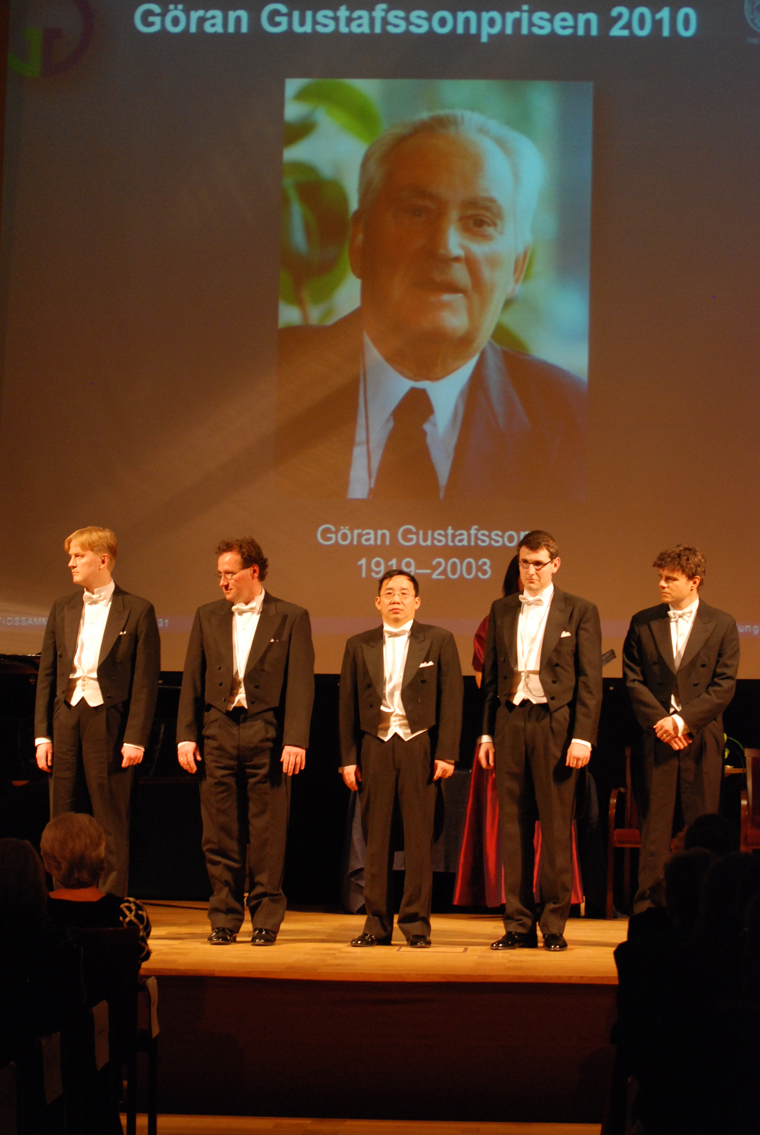 Ceremonial Meeting of the Royal Swedish Academy of Sciences: award ceremony of the Göran Gustafsson prize 2010: Pär Kurlberg, Bernhard Mehlig, Yi Luo, Johan Elf and William Agace